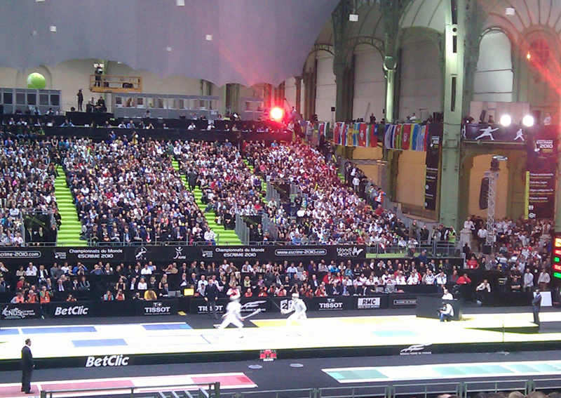 World Fencing Championship 2010, in Grand Palais, Paris. Final sabre men : Won - Limbach